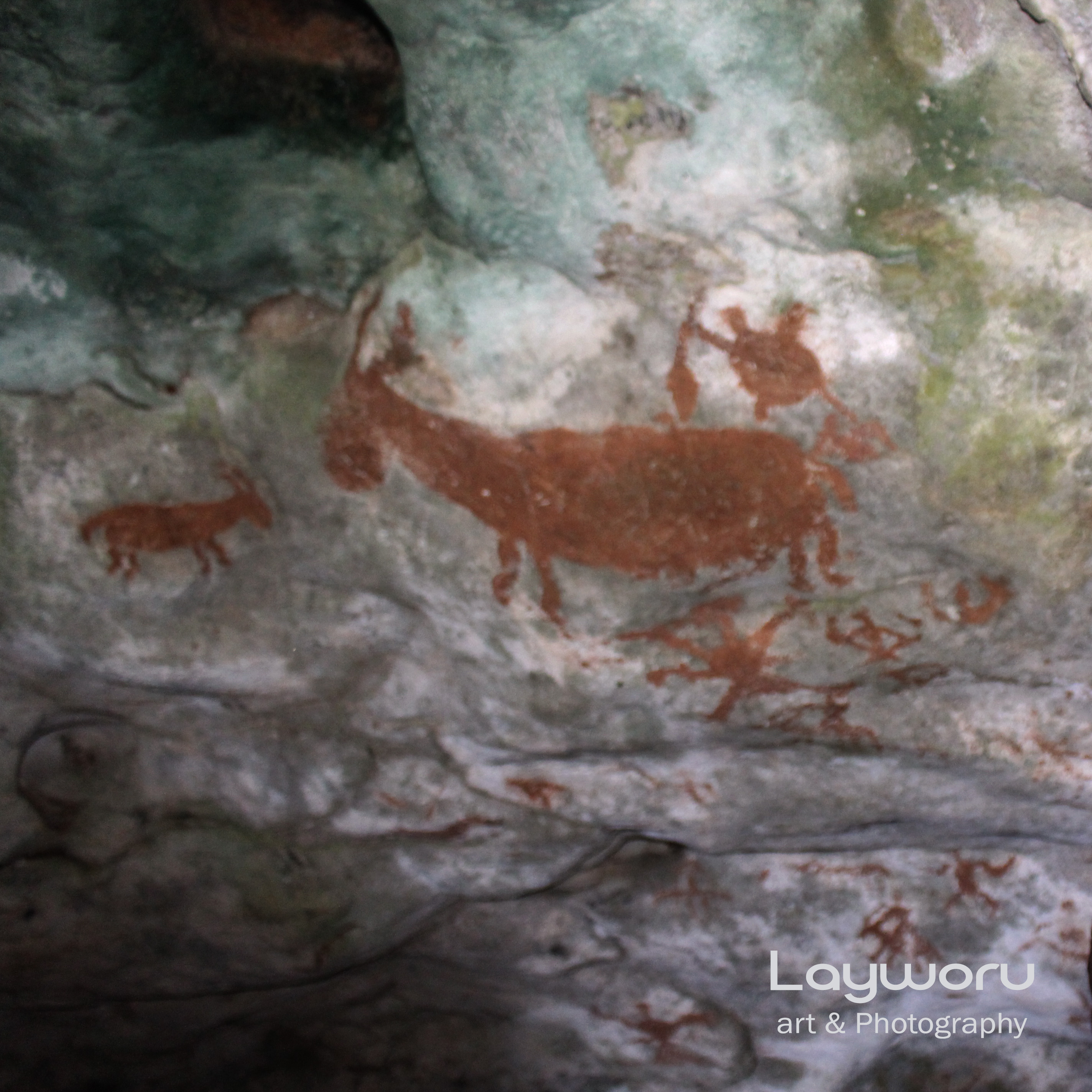 Painting Liangkabori Cave